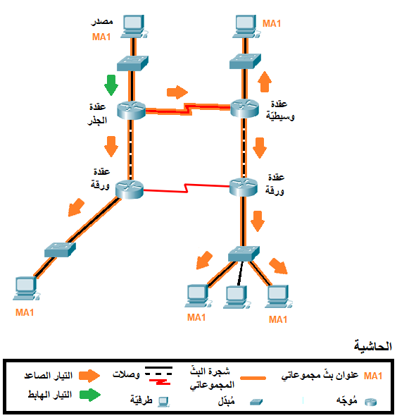 The concepts and terms of multicast.